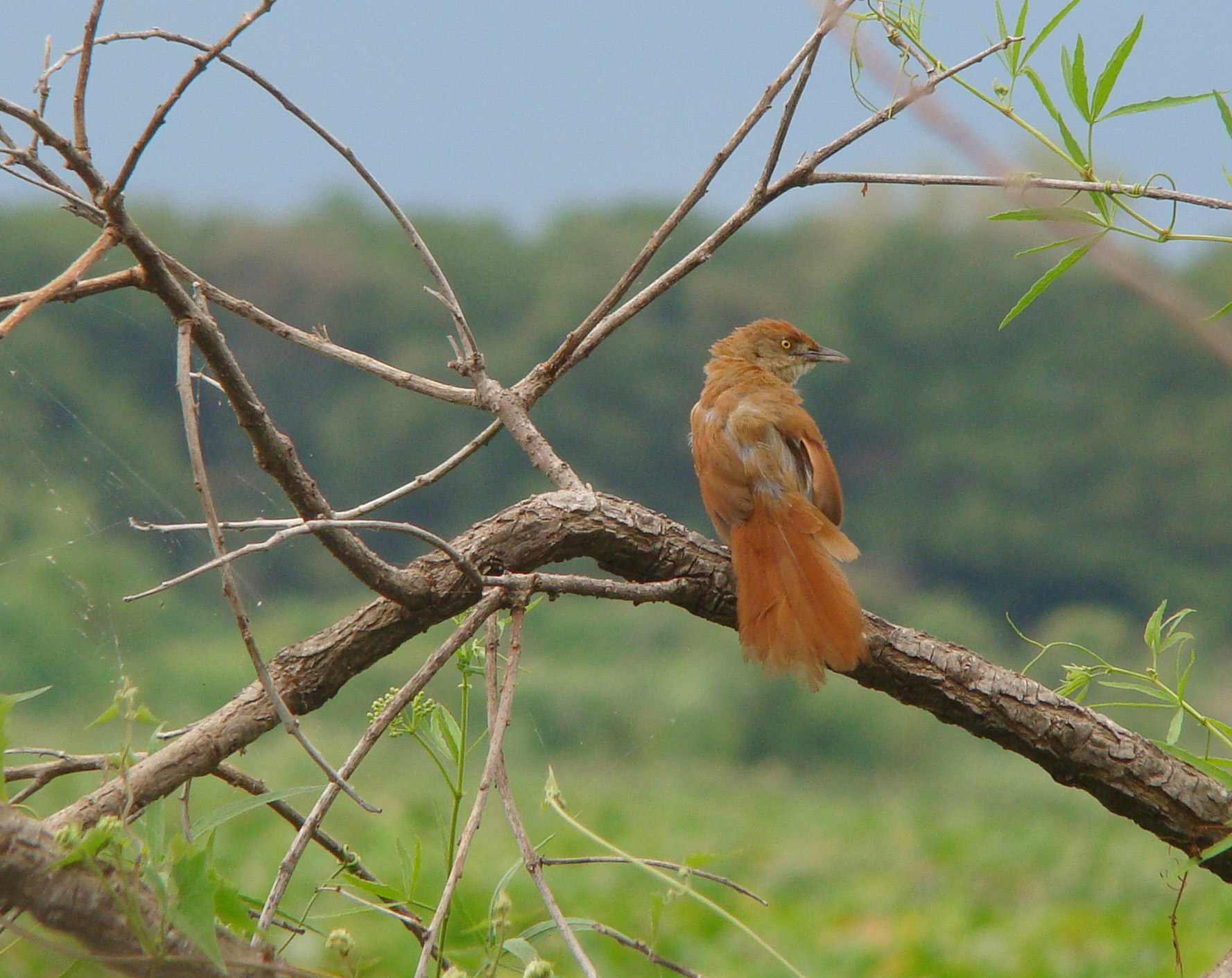 Phacellodomus ruber photographed in Esquina, Argentina, in March 2010.